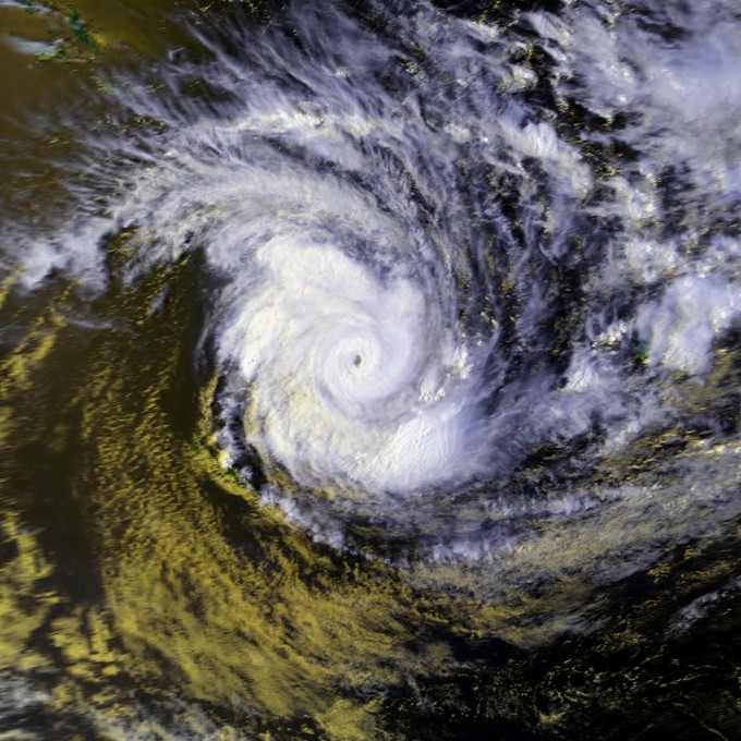 Cyclone Bola from NOAA-9. Inventory ID: NSS.GHRR.NF.D88061.S0305.E0453.B1657172